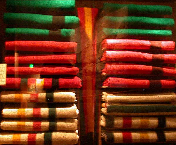 Hudson's Bay point blankets on display at the Tamástslikt Cultural Institute on the Umatilla Indian Reservation near Pendleton (taken Oct. 20, 2004) © 2004 Matthew Trump